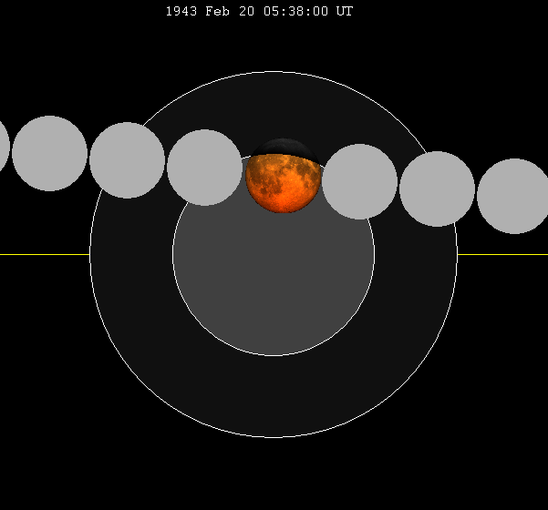 February 1943 lunar eclipse chart of moon's path through the earth's shadow. thumb